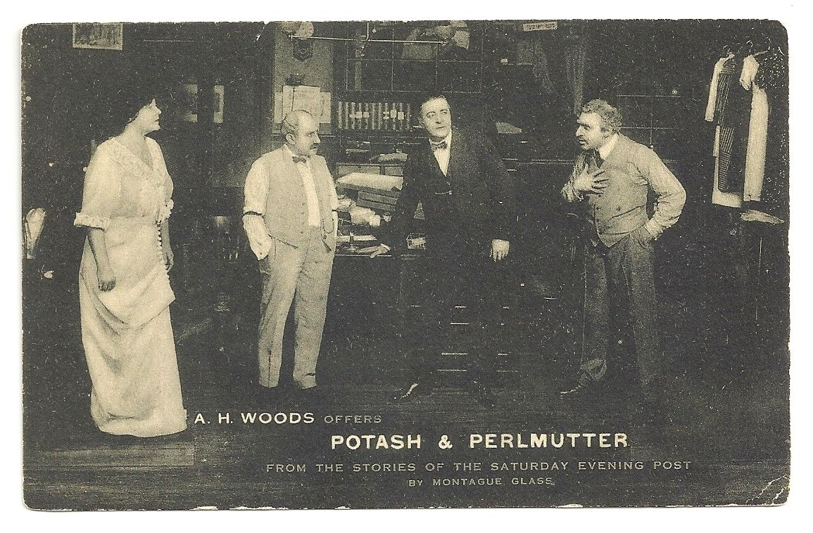 Postcard promoting the 1913 play Potash and Perlmutter.